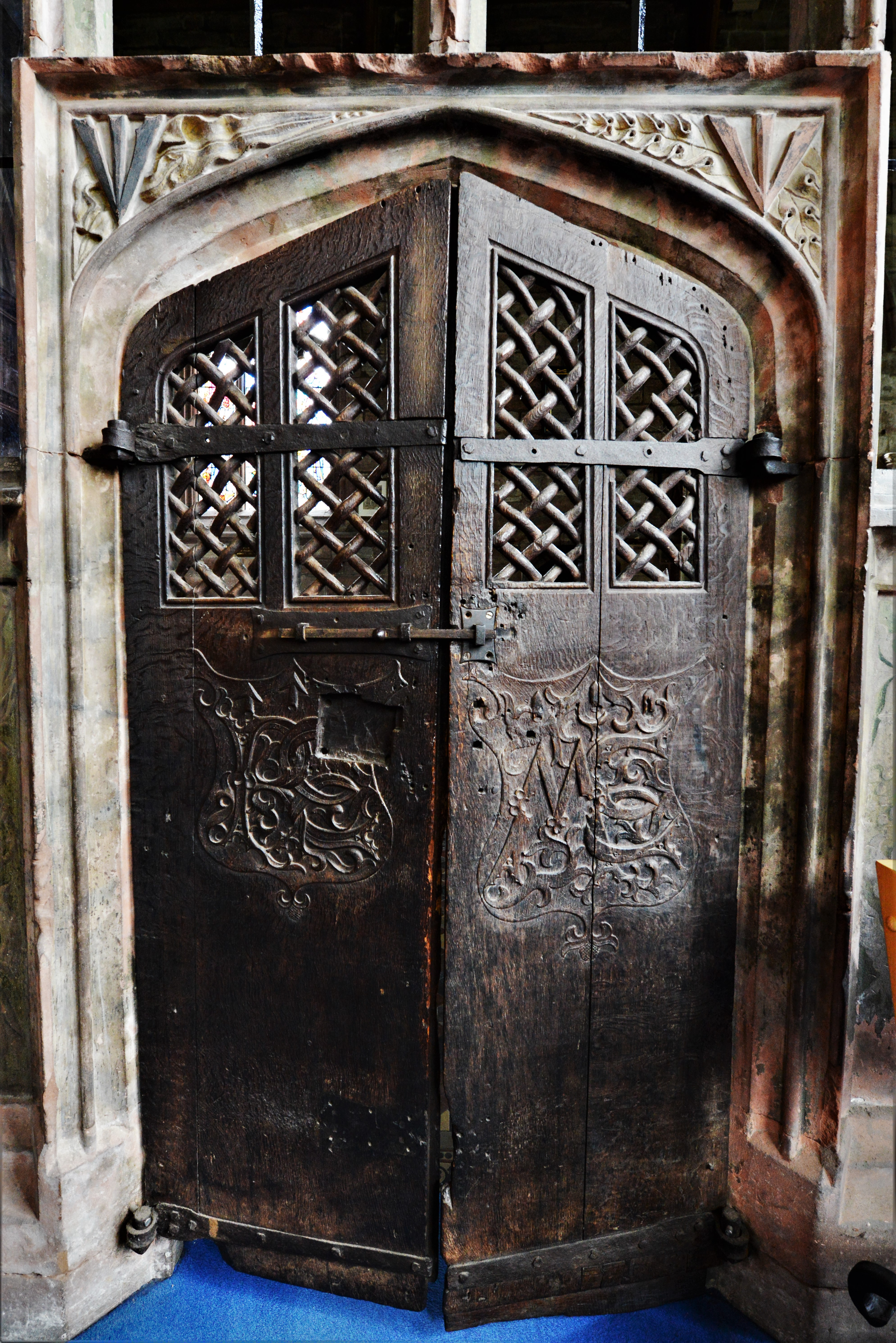 Bunbury, St. Boniface's Church: Ralph Egerton Chantry Chapel (Ridley Chapel) 2